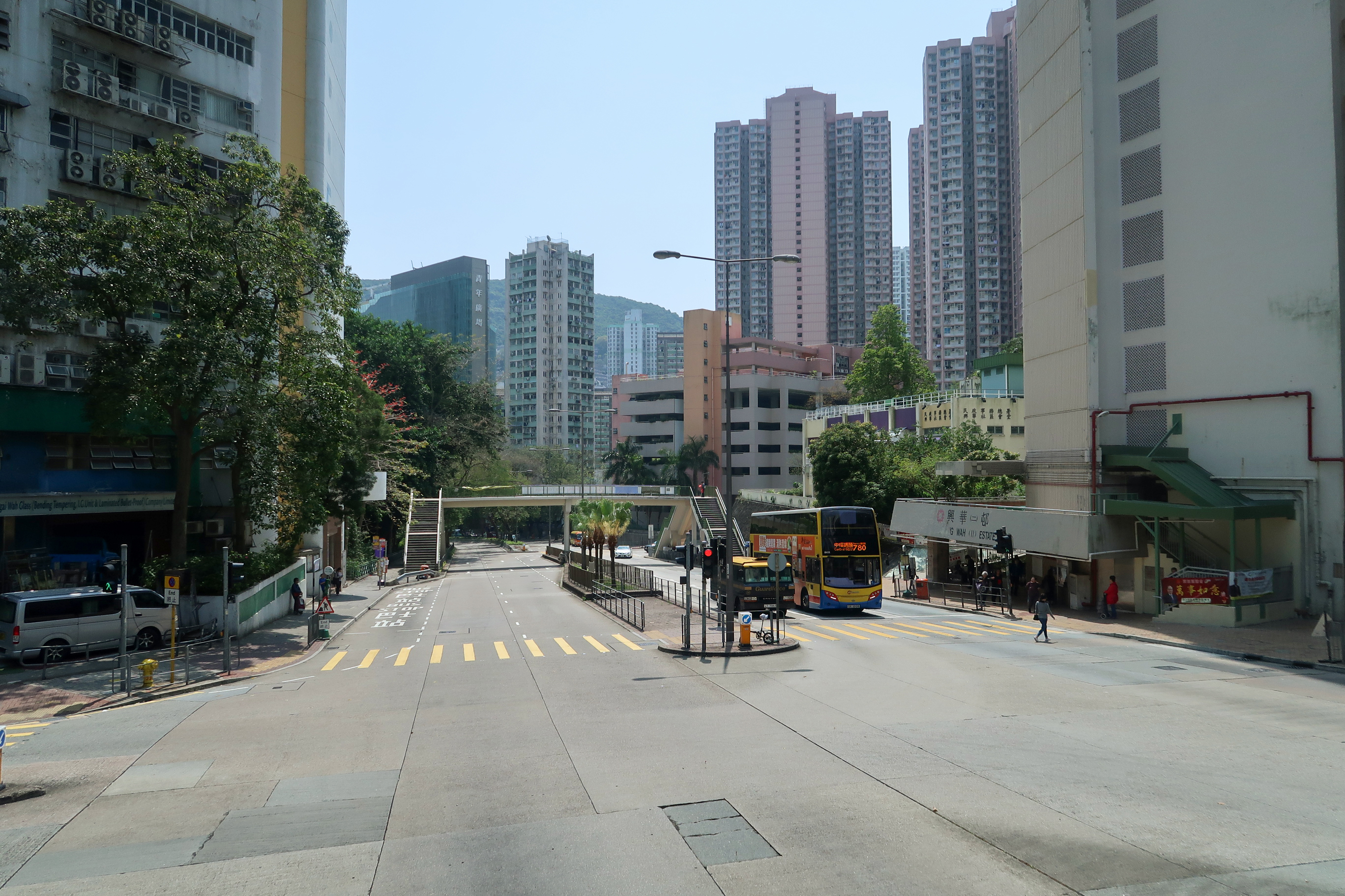 Chai Wan Road